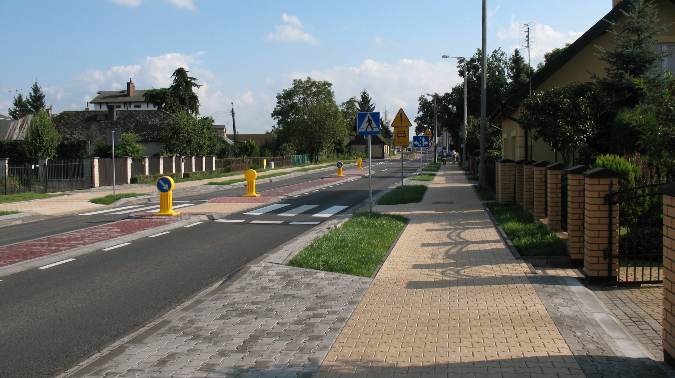 Puławy, Włostowicka Street